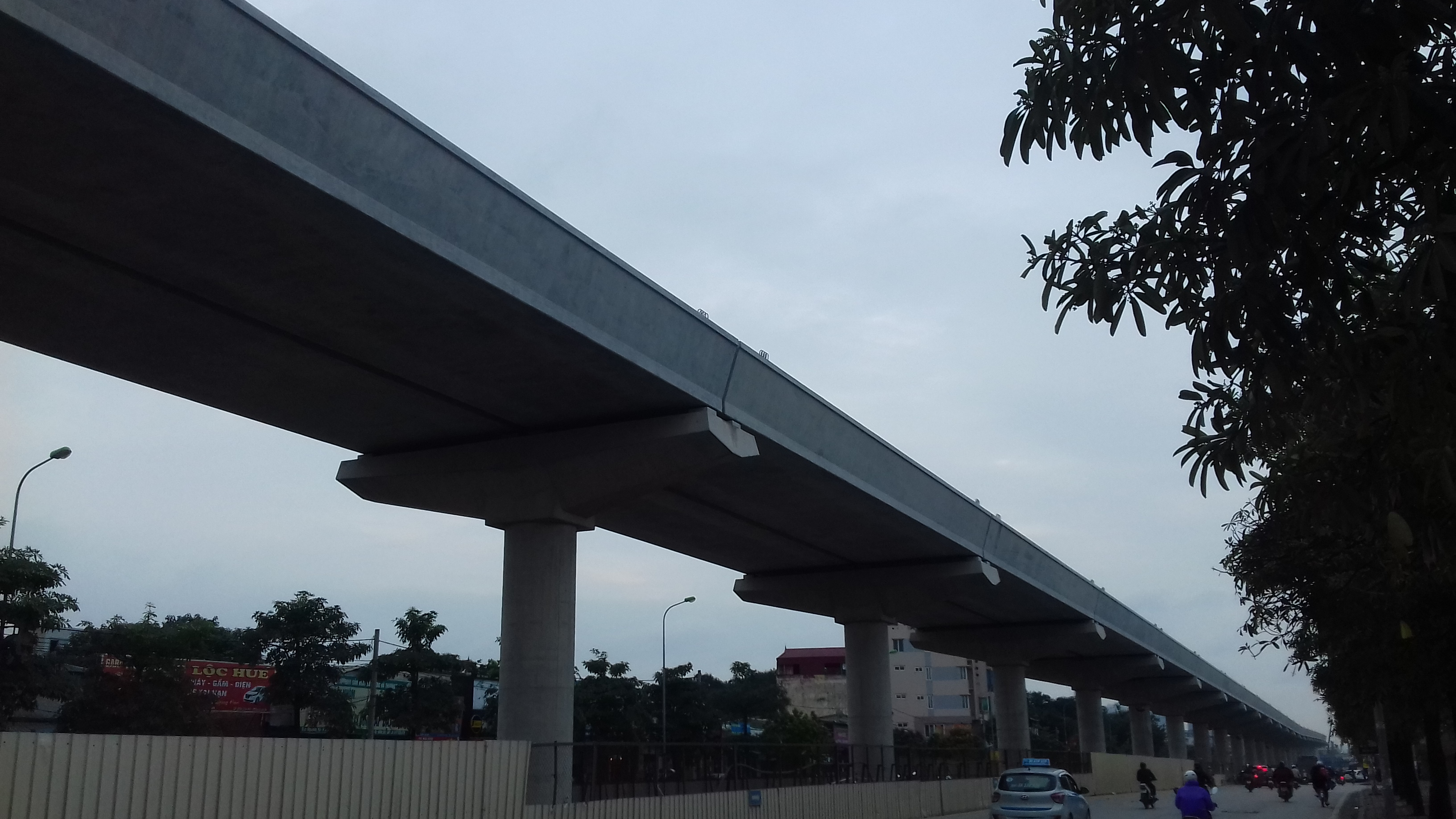 This is Line 3 of Hanoi Metro